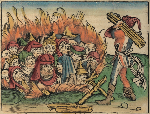 Woodcut from the Nuremberg Chronicle (Latin edition in Sao Paulo)